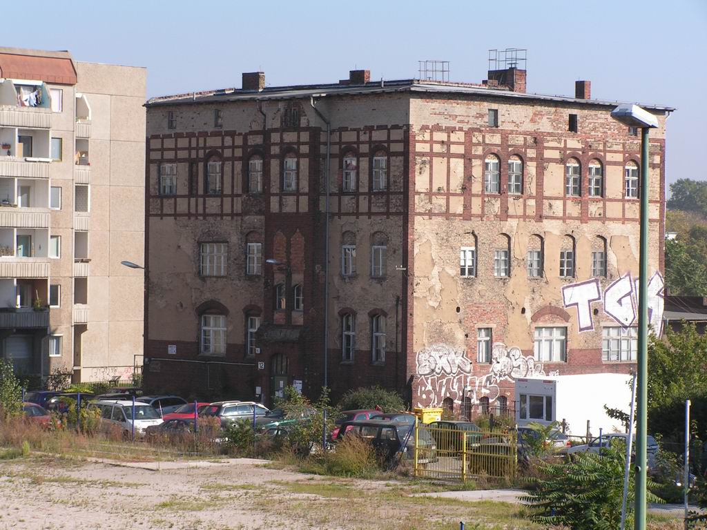 A relict of the old station "Wriezener Bahnhof" in Berlin